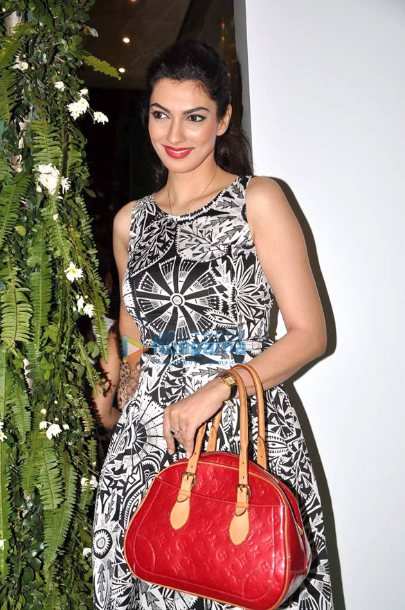 Yukta Mookhey at the launch of Marc Cain store.